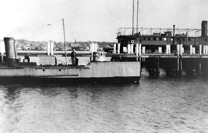 Cyane Description: (YFB-4, ex-USS Gwin, Torpedo Boat # 16) Forward half of the ship, photographed in March or very early April 1922, following completion of repairs to her bow, damaged in a collision with the stone sea wall at the Torpedo Station, Newport, Rhode Island. Navy Torpedo Test Barge # 2 (built 1916) is in the right background. The original print is in National Archives Record Group 19, Entry 105, Box 192, File O-YFB4. U.S. Naval History and Heritage Command Photograph.)